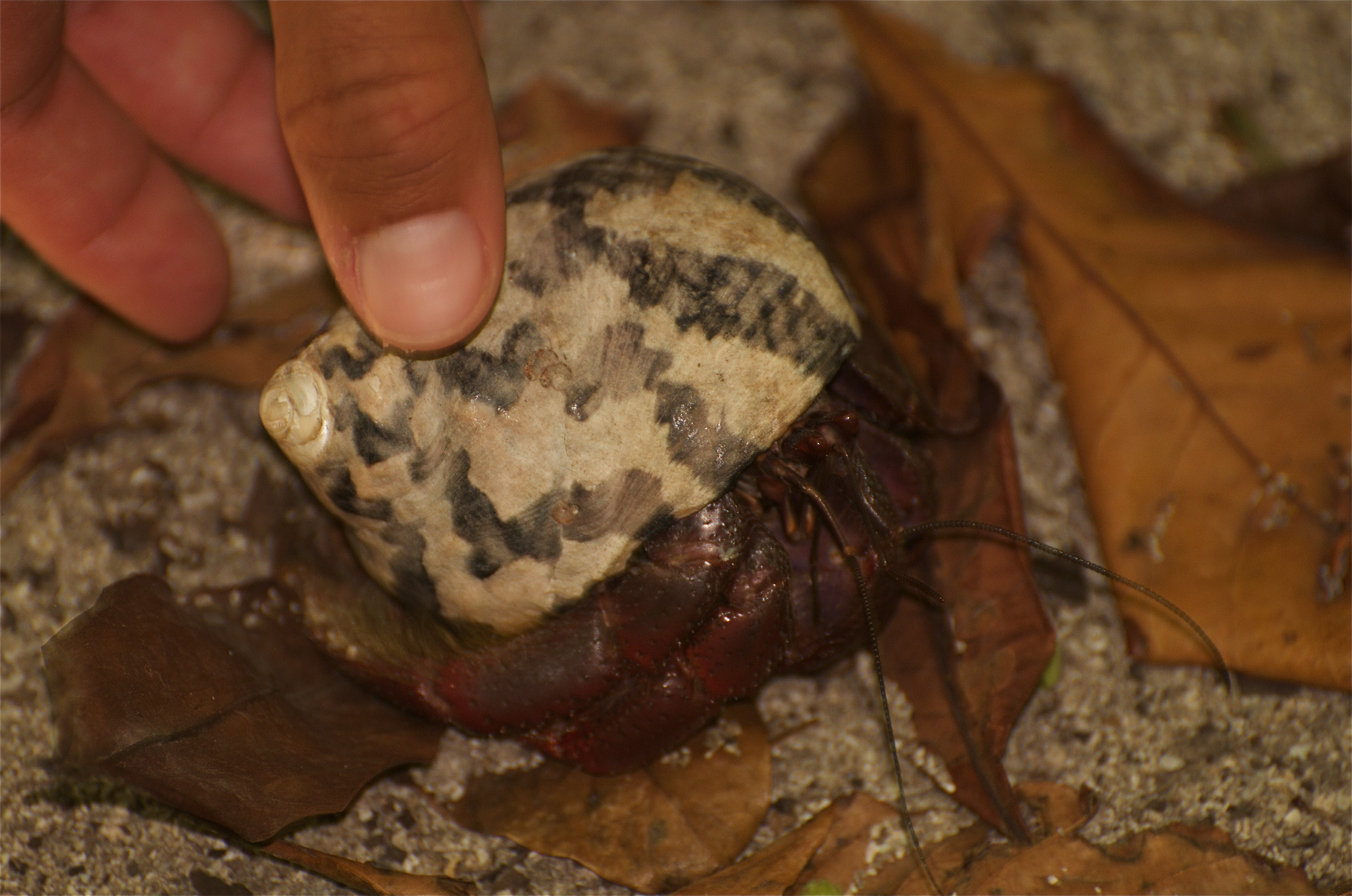 land hermit crab Coenobita clypeatus in a shell of Cittarium pica. Locality: Half Moon Caye, in Belize.